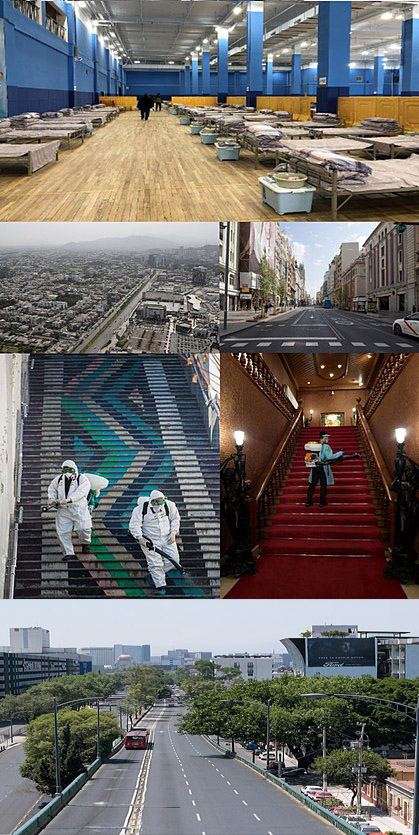 Quarantine for the 2019-2020 coronavirus disease pandemic